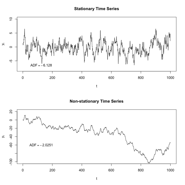 Comparison of two simulated processes, one stationary, one nonstationary